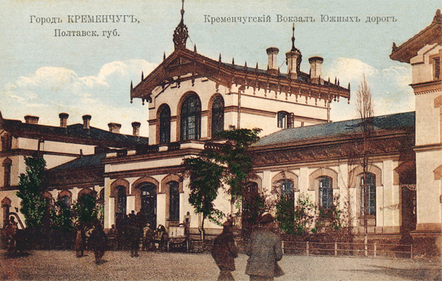 Postcards of old Kremenchuk. Вокзал.